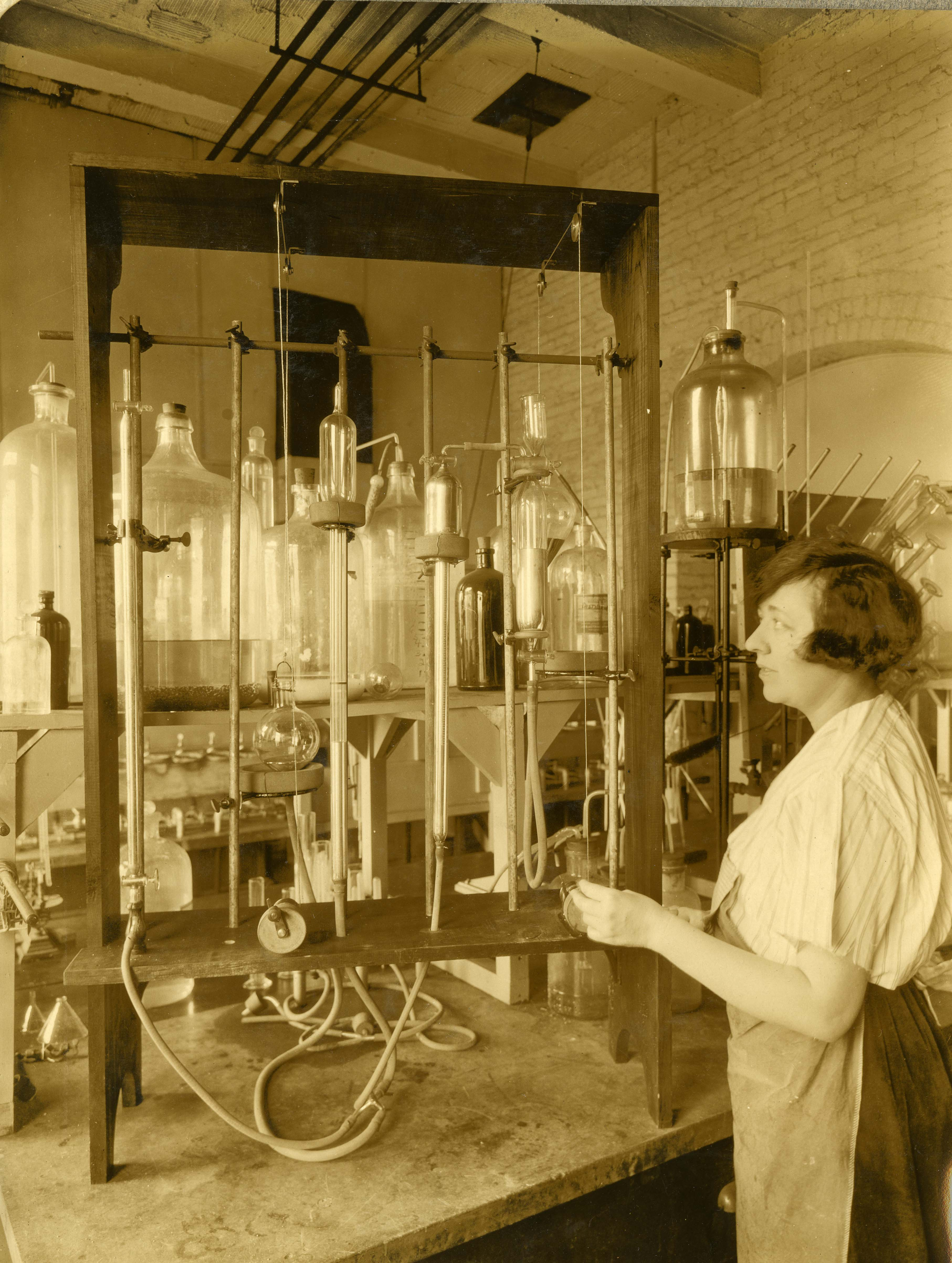 Mrs. M. K. Murray demonstrating a nitrometer in the laboratory.